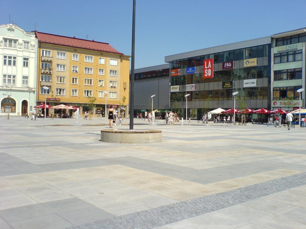 Masaryk Square, Ostrava.